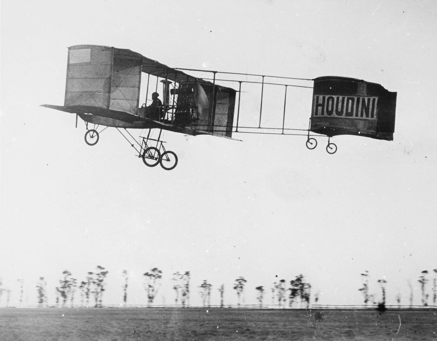 Format: Silver gelatin photograph Find more detailed information about this photograph: .au/item/itemDetailPaged.aspx?itemID=446927 Format: Photograph Search for more great images in the State Library's collections: .au/search/SimpleSearch.aspx From the collection of the State Library of New South Wales